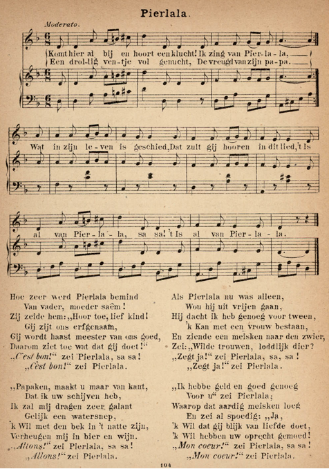 Song sheet (music sheet) with the folk song 'Komt hier al bij en hoort een klucht / Ik zing van Pierlala'. With music notation. Not dated; printed around 1900. Source: Kwast Gsl1900, Wouters/Moormann, Meertens Instituut, Amsterdam. Online source: Het Geheugen van Nederland (